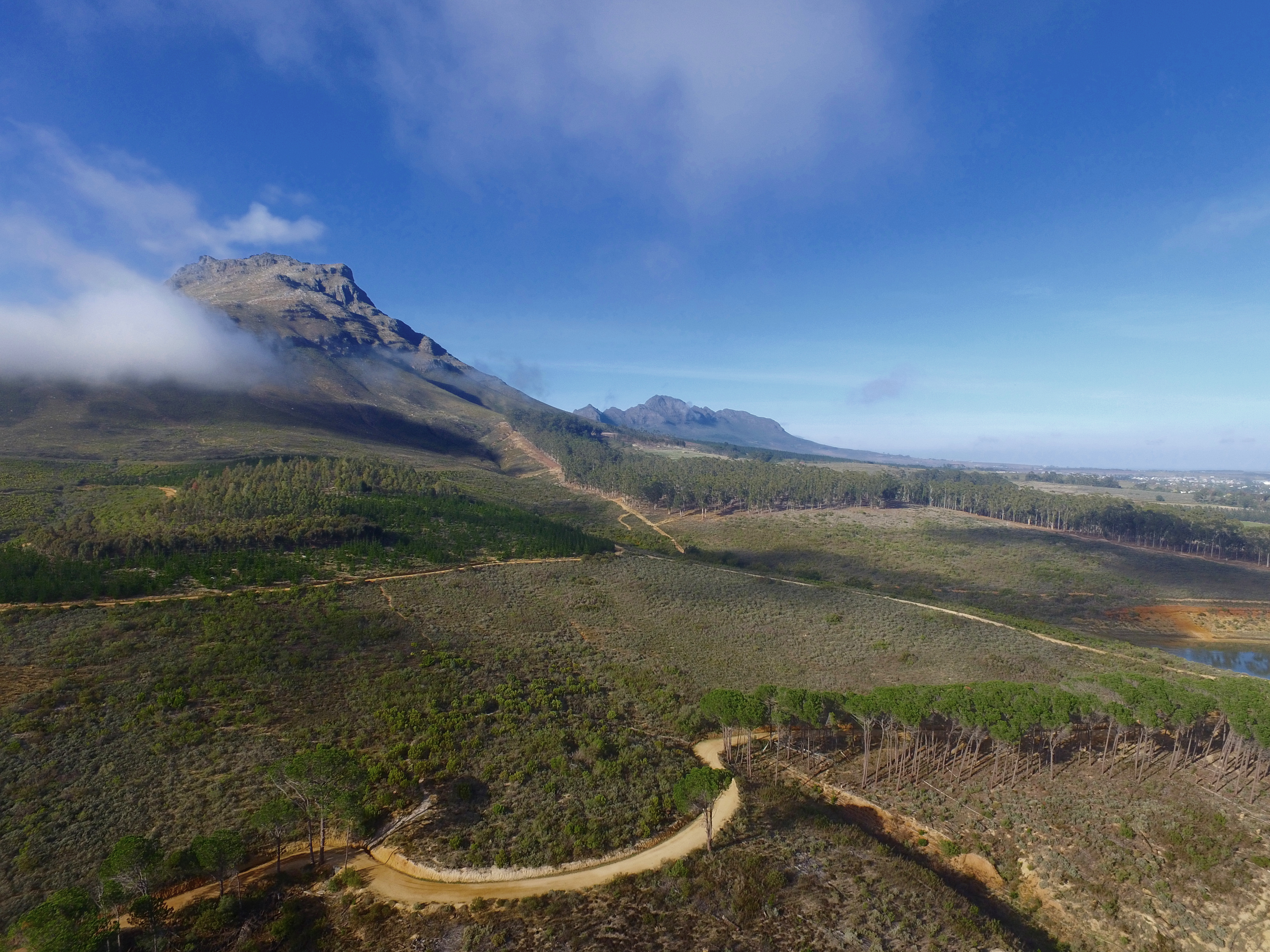 Coetzenburg - Stellenbosch Mountain : The areas offers superb scenic views over mountains, vineyards and orhards covered with wild flowers in spring. The magnificent mountains ranges reach heights of 1600 metres, forming a spectacular backdrop to the town. Stellenbosch Mountain is situated to the south of Stellenbosch, and from the top hikers can see views of Table Mountain, Helderberg, False Bay, Stellenbosch and the Jonkershoek valley. The start of the trail is on the eastern side of the Coetzenburg Athletic Stadium.